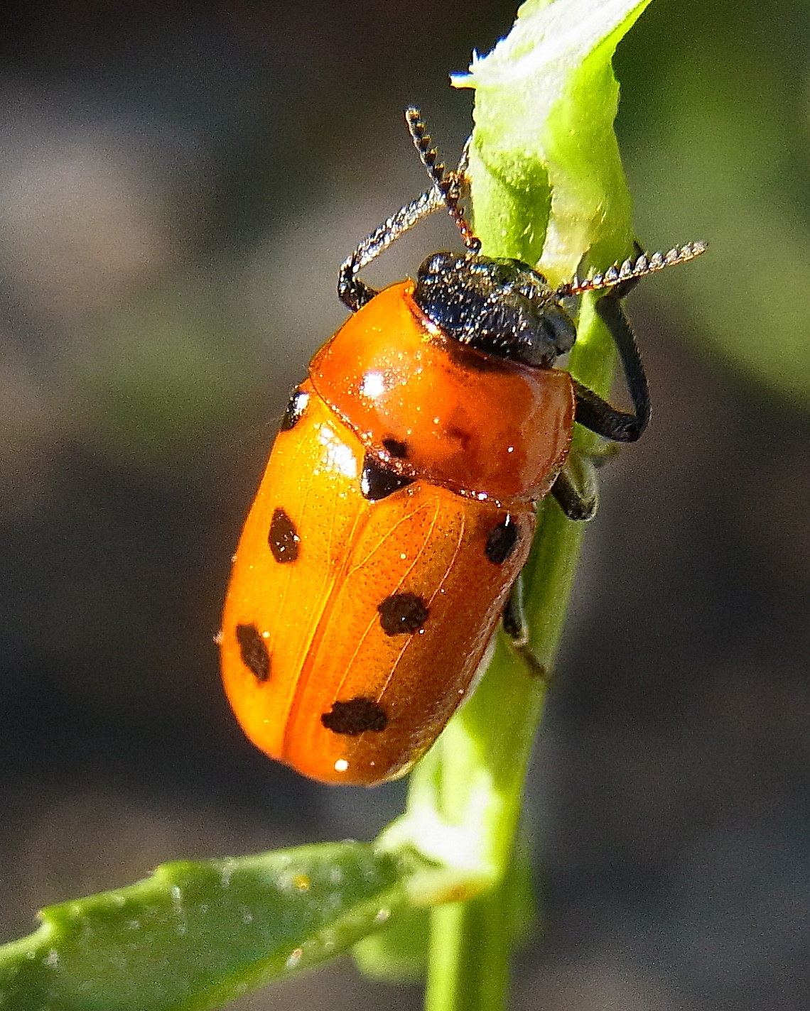 Tituboea biguttata near 25740 Ponts, Leida, Spain, at 2013-06-23